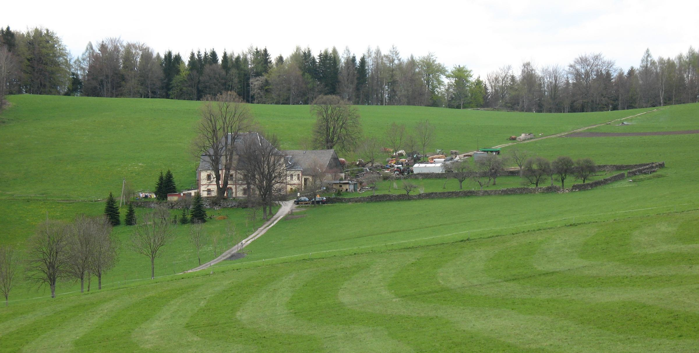 Rockstrohgut Rittersgrün